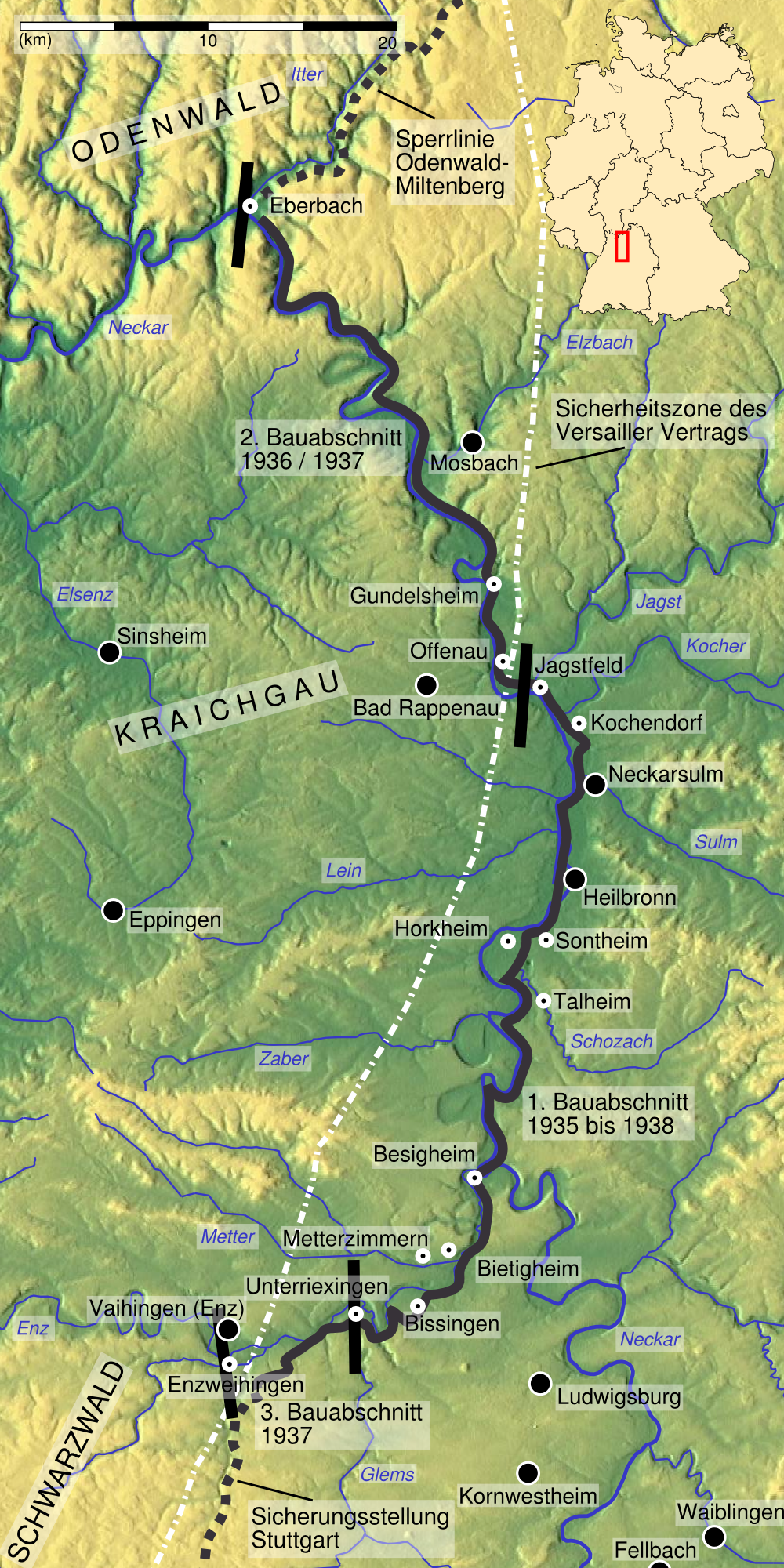 map of the Neckar-Enz bunker line.